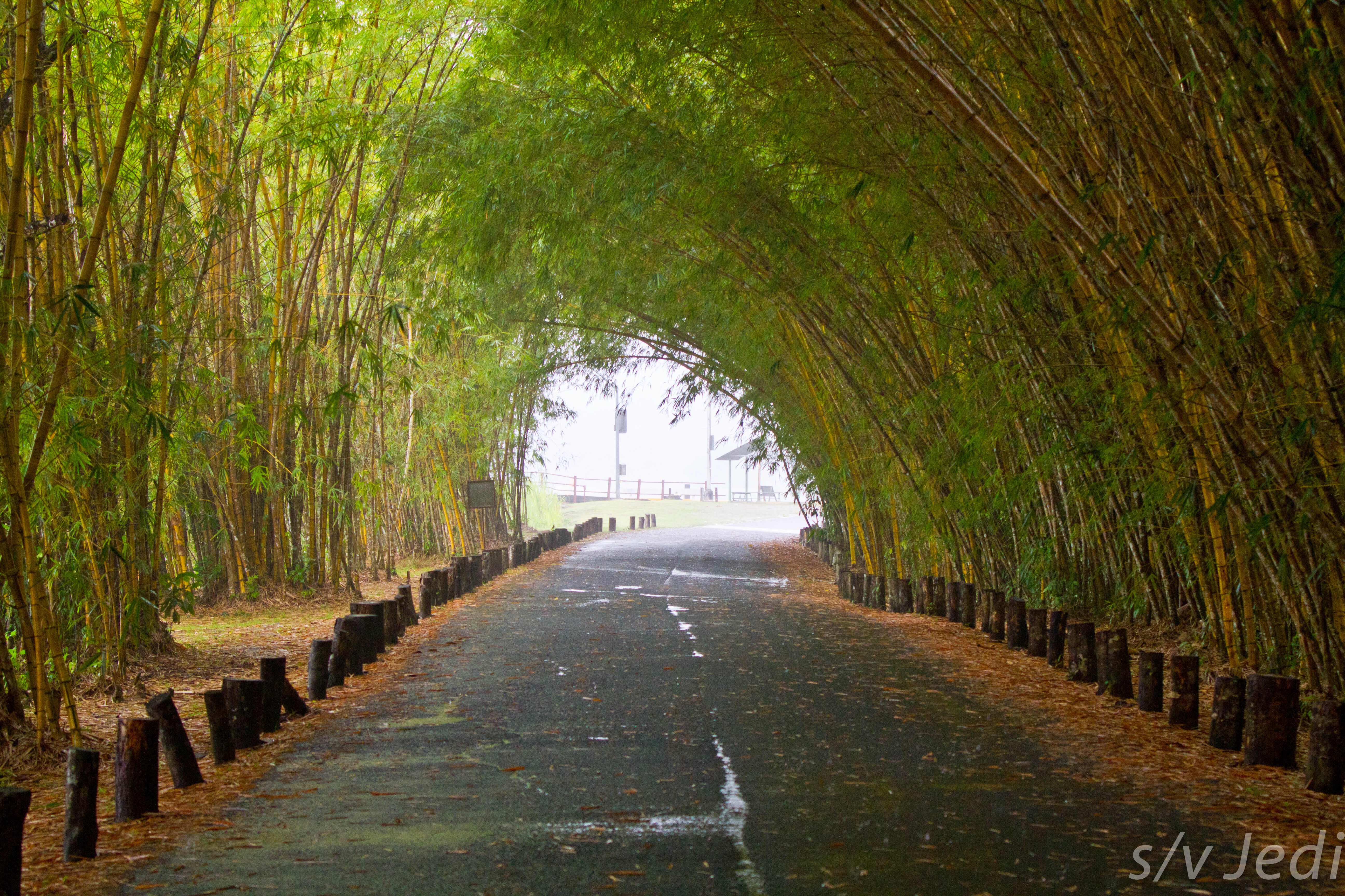 Gamboa Goethals Boulevard is a tunnel of bamboo in 2011.